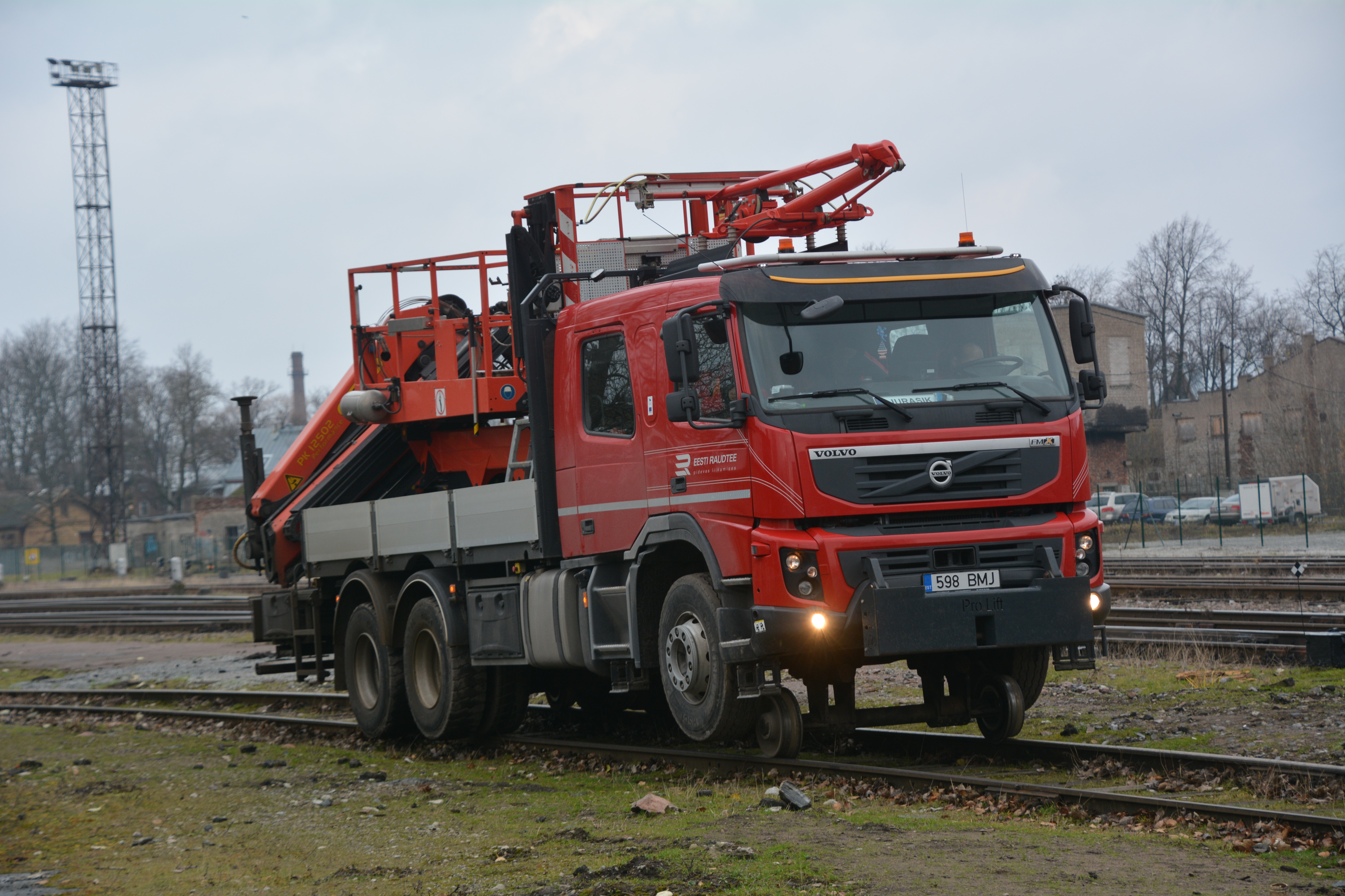 Railroad vehicle, Volvo FMX, Tallinn, Estonia